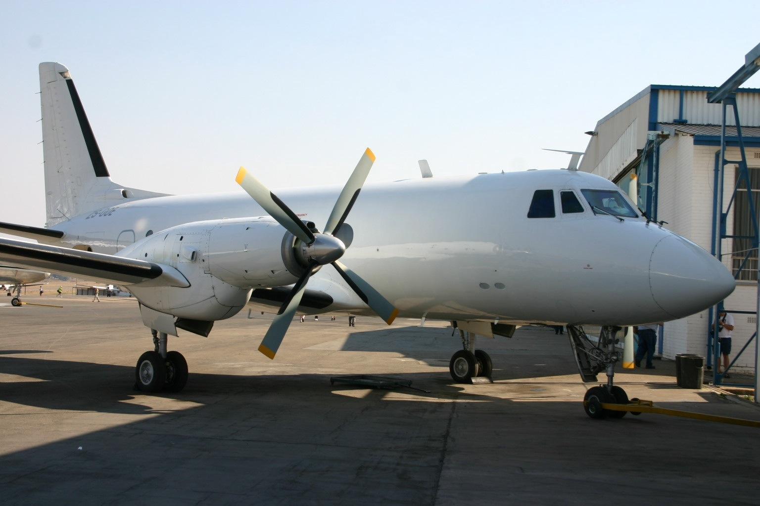 At Lanseria International Airport